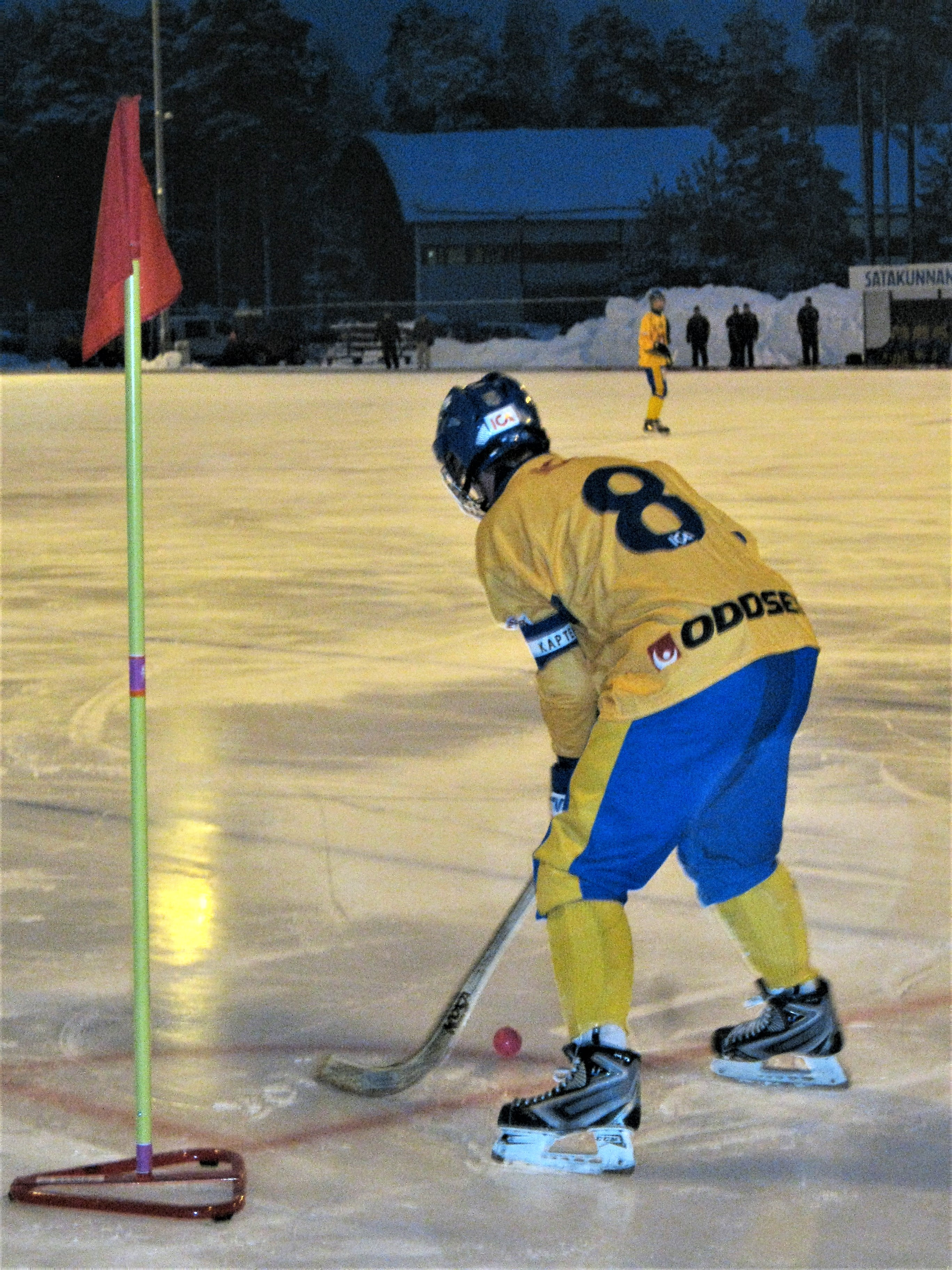 Swedish player on a corner stroke. Bandy U17 Nordic Championships 2010, Pori, Finland.